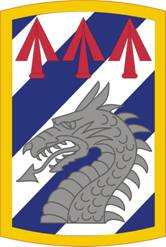 3rd Sustainment Brigade shoulder sleeve insignia from